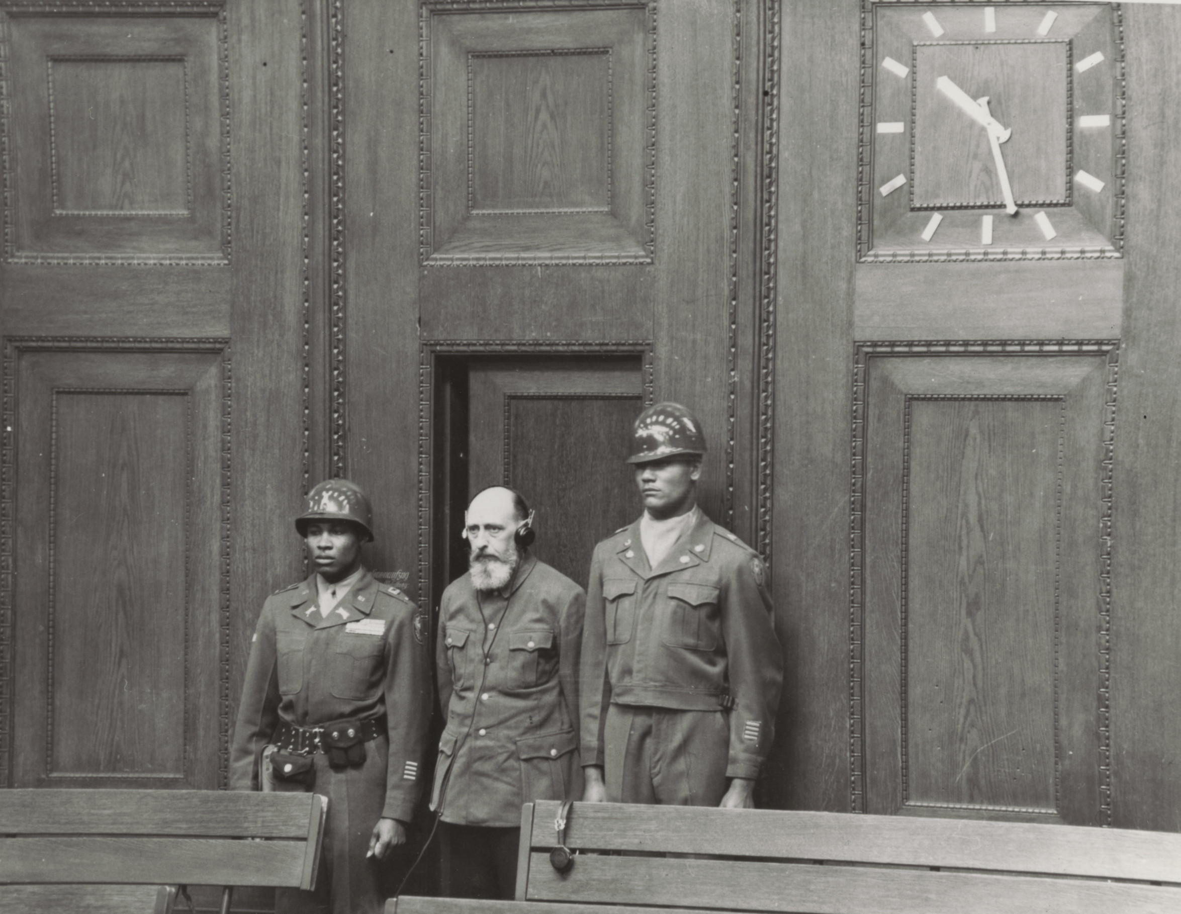 Defendant Paul Blobel is sentenced to death by hanging at the Einsatzgruppen Trial.